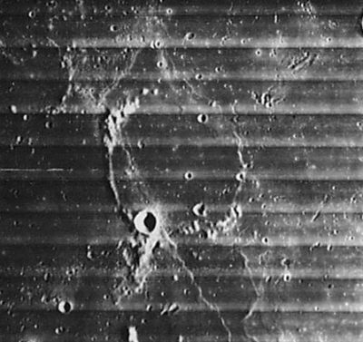 Opelt is the large partial ring at center. The fresh 8 km crater at 7 o'clock, accompanied by hills, is Opelt E.